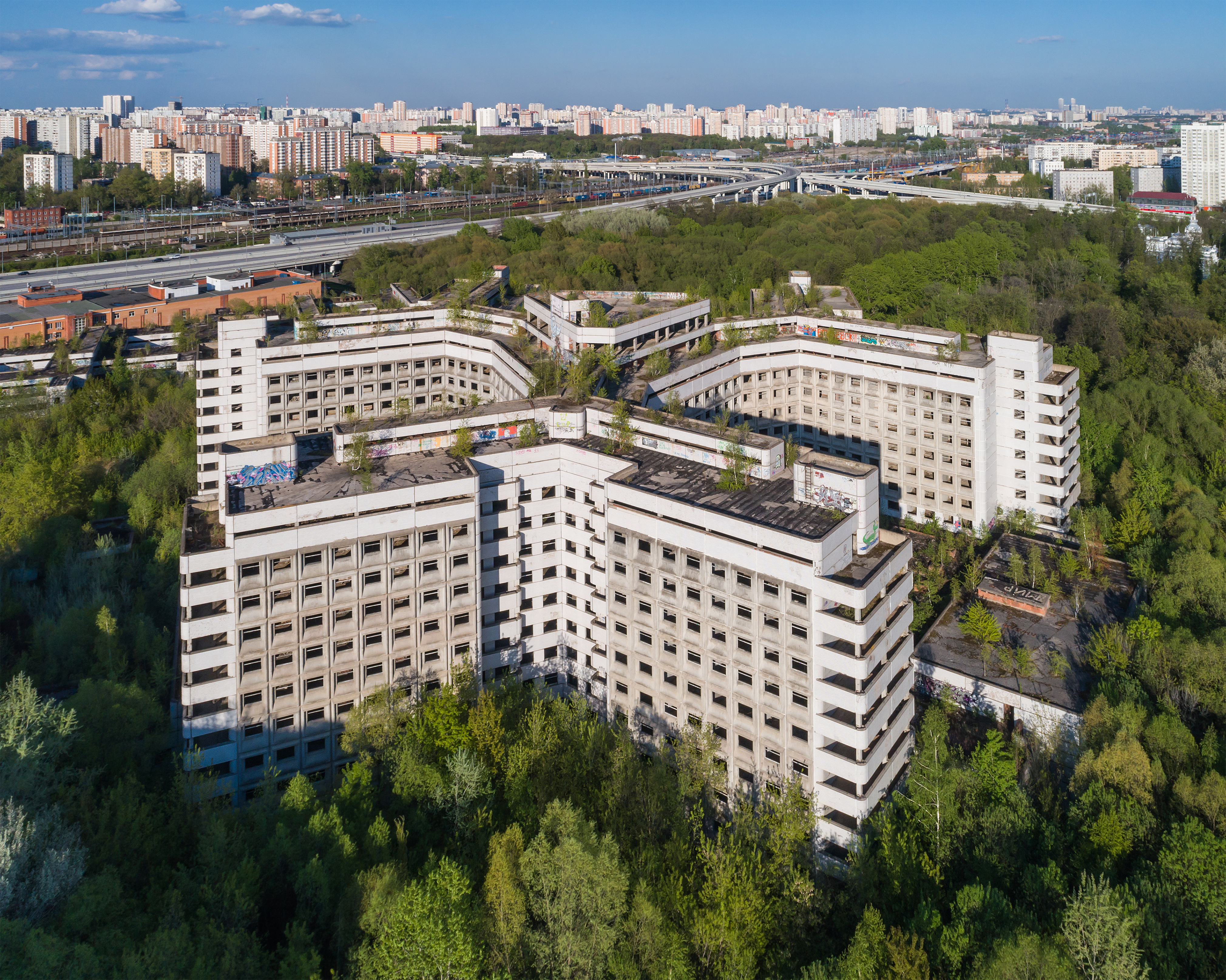 Aerial photo of abandoned unfinished construction of Khovrino Hospital in Moscow (Russia).